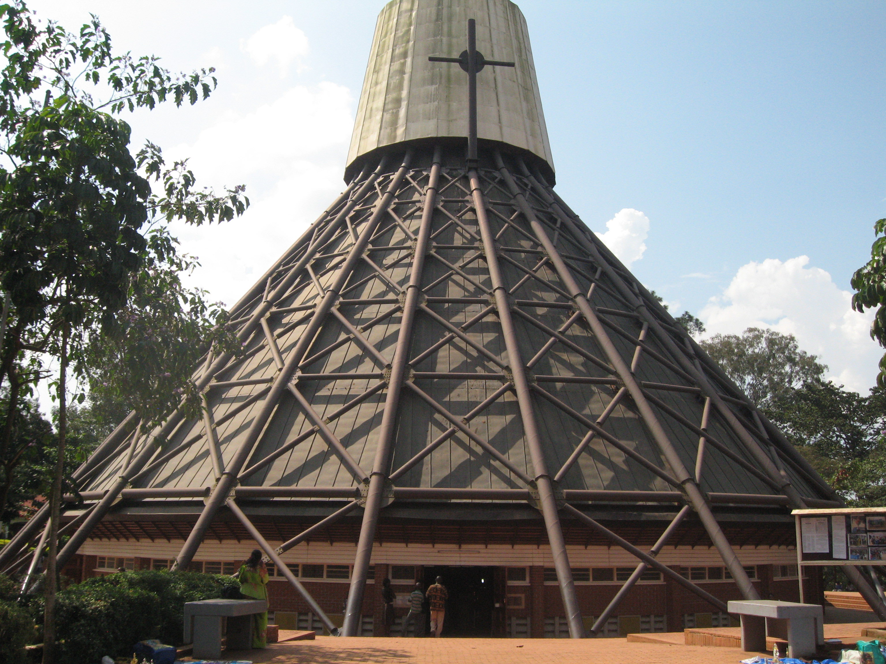 Basilica Church of the Uganda Martyrs, Namugongo